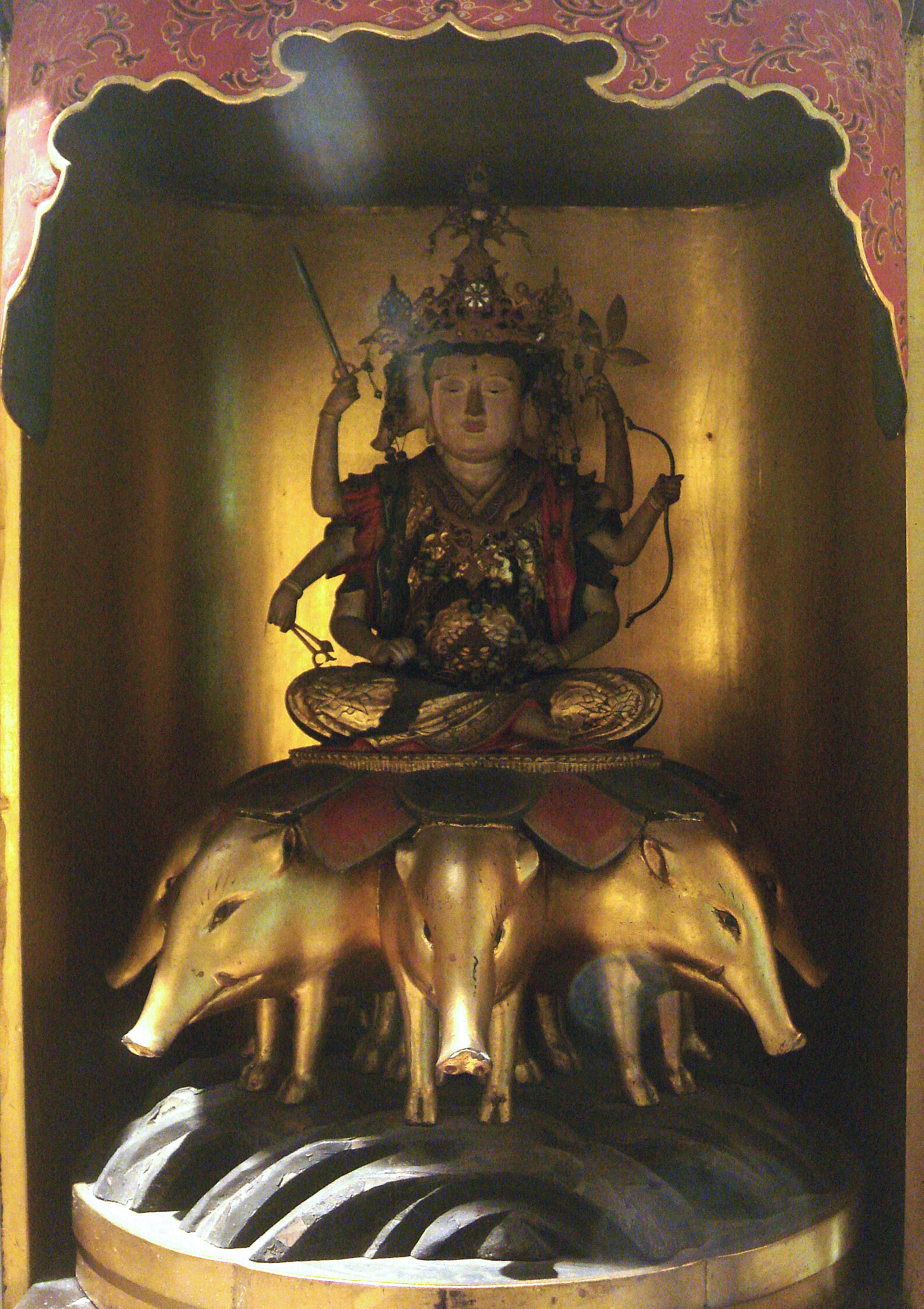 Marishiten_Marici